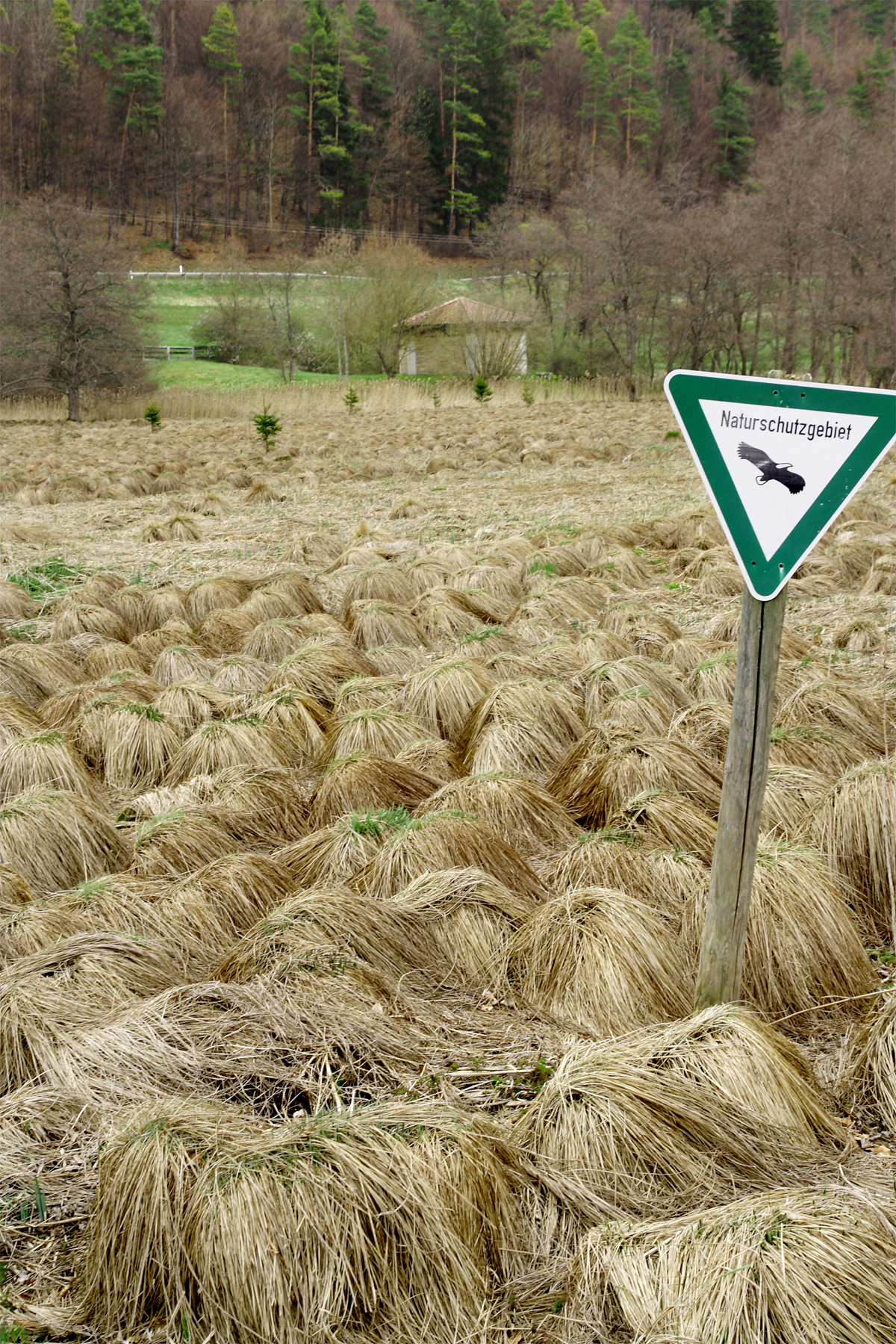 Hydromorphic soil in the upper Lauchert valley, Swabian Alb. Yet a semi wetland right above a karstic underground is very exceptional! This habitat of Greater Tussock Sedges (Carex) is therefore a nature reserve - the sign indicates it.The abundance of water is from a karst spring, rising in a joint.Building in the back: Pumping station for drinking water, protecting the karst spring.